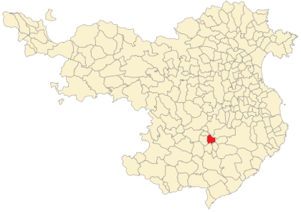 Fornells de la Selva